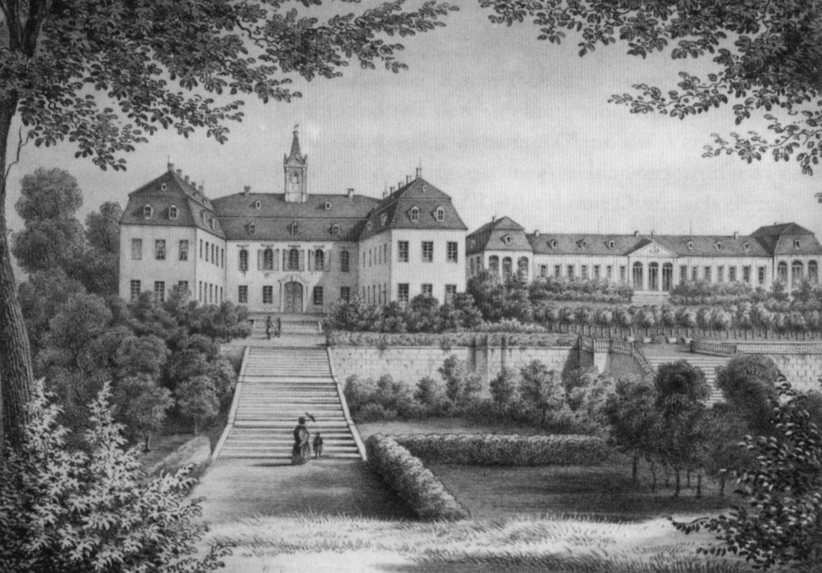 Friedrichschlößchen and Baroque Garden, Großsedlitz near Dresden, around 1840